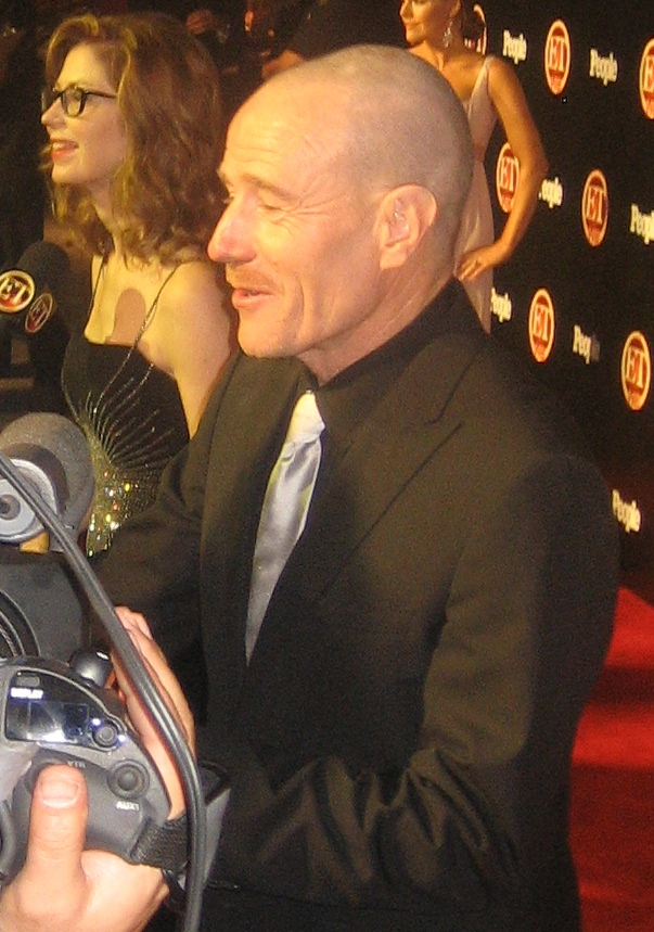 ET Post-Emmys Party, Walt Disney Concert Hall, Sept. 21, 2008